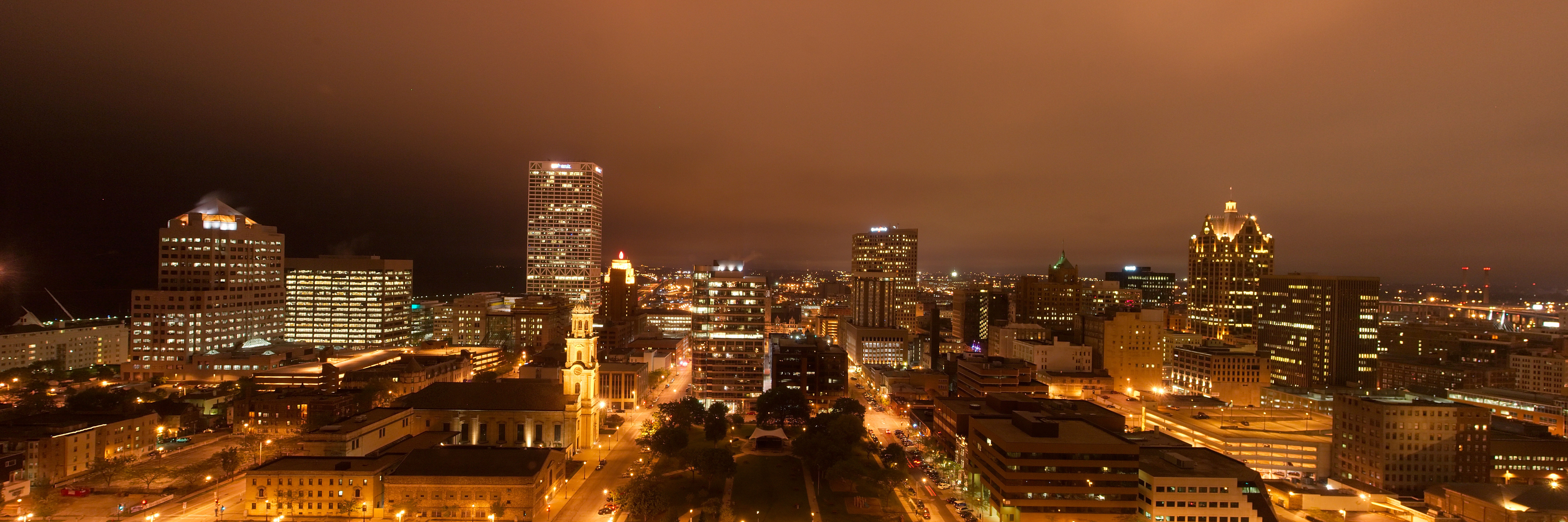 A panorama of downtown Milwaukee, Wisconsin by night